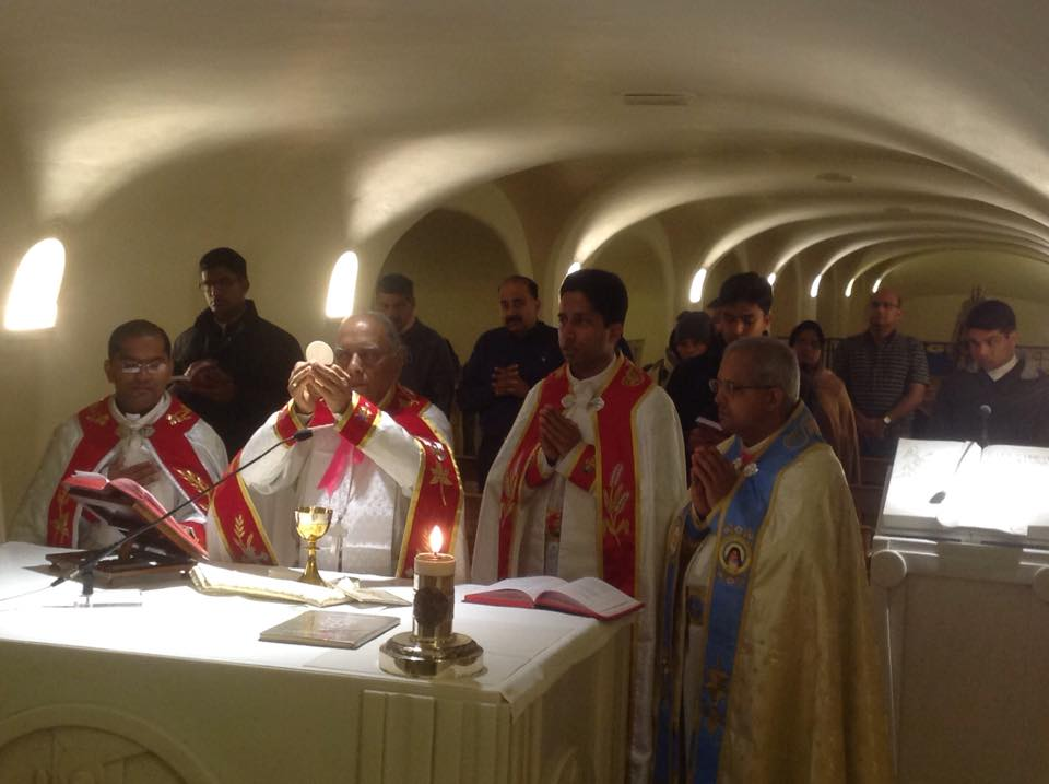 Mar Joseph Pallickaparampil Celebrates Holy Qurbana at St. Peters Tomb Vatican